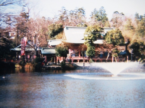 The temple in Inokashira park. Personal photograph